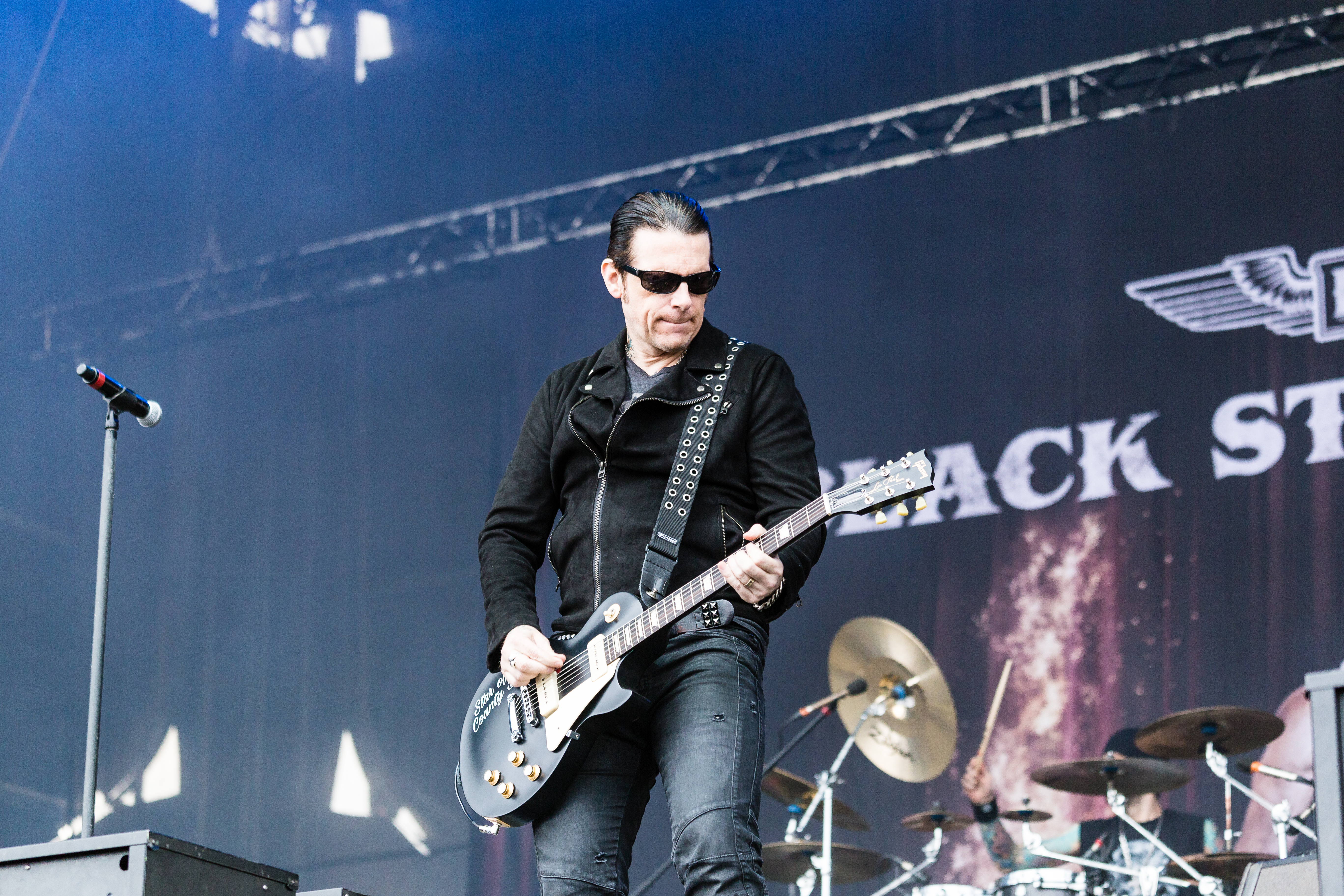 Nova Rock 2017 Ricky Warwick from Black Star Riders at the Nova Rock 2017